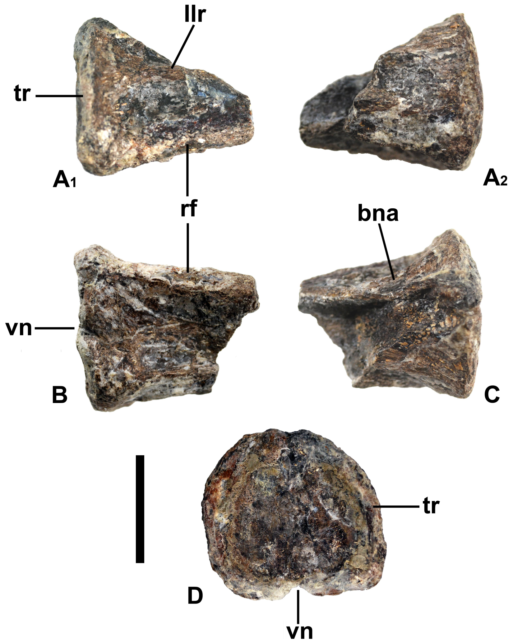 Cervical vertebra fragment from the ANSP collection. A1. and A2. lateral view, B. ventral view, C. dorsal view, D. articular view. Abbreviations. bna = base of the neural arch, llr = lateral longitudinal ridge, rf = single rib facet, tr = thickened rim, vn = ventral notch. Scale bar equals 3 cm.